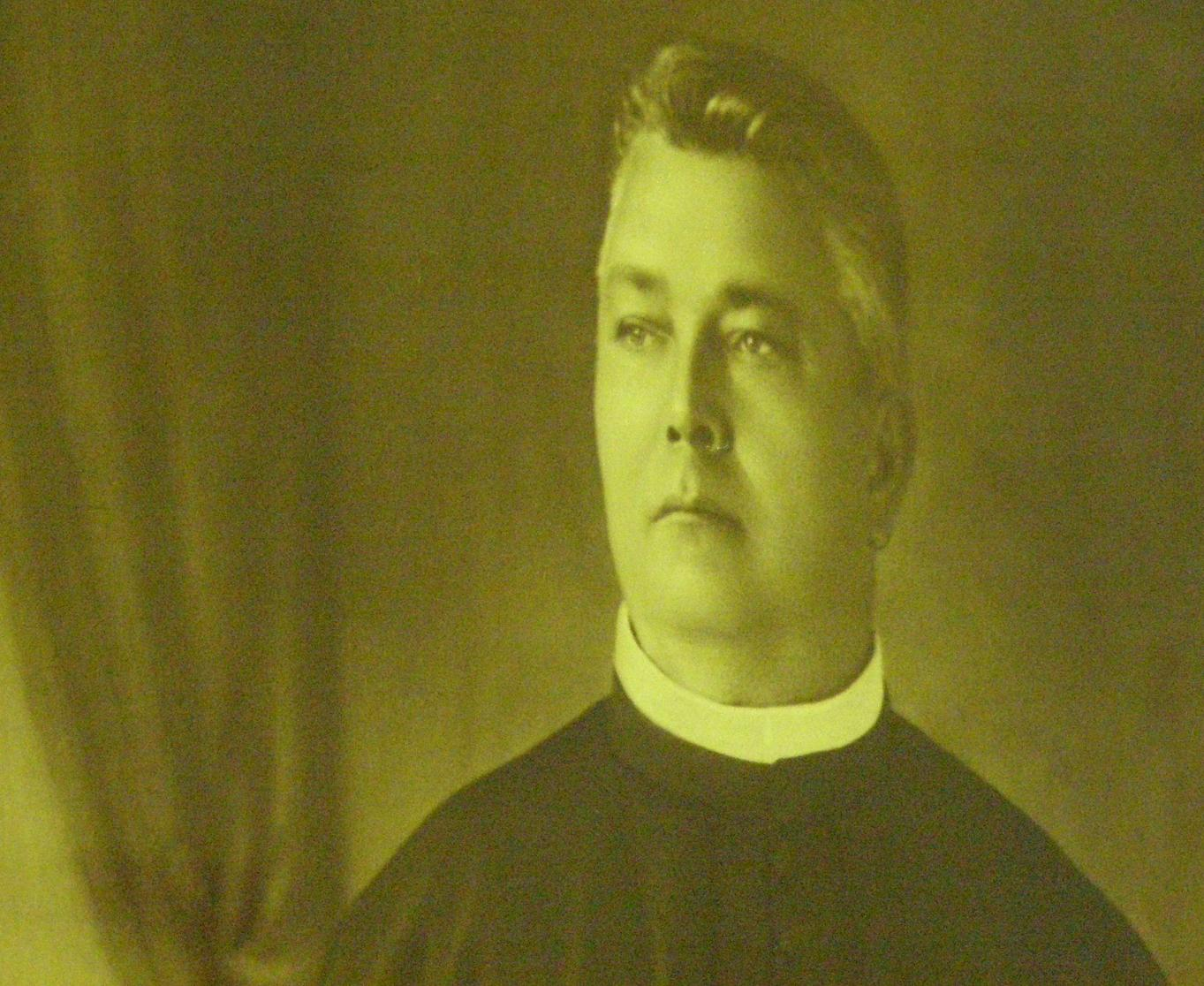 János Szlepecz roman catholic priest and writer